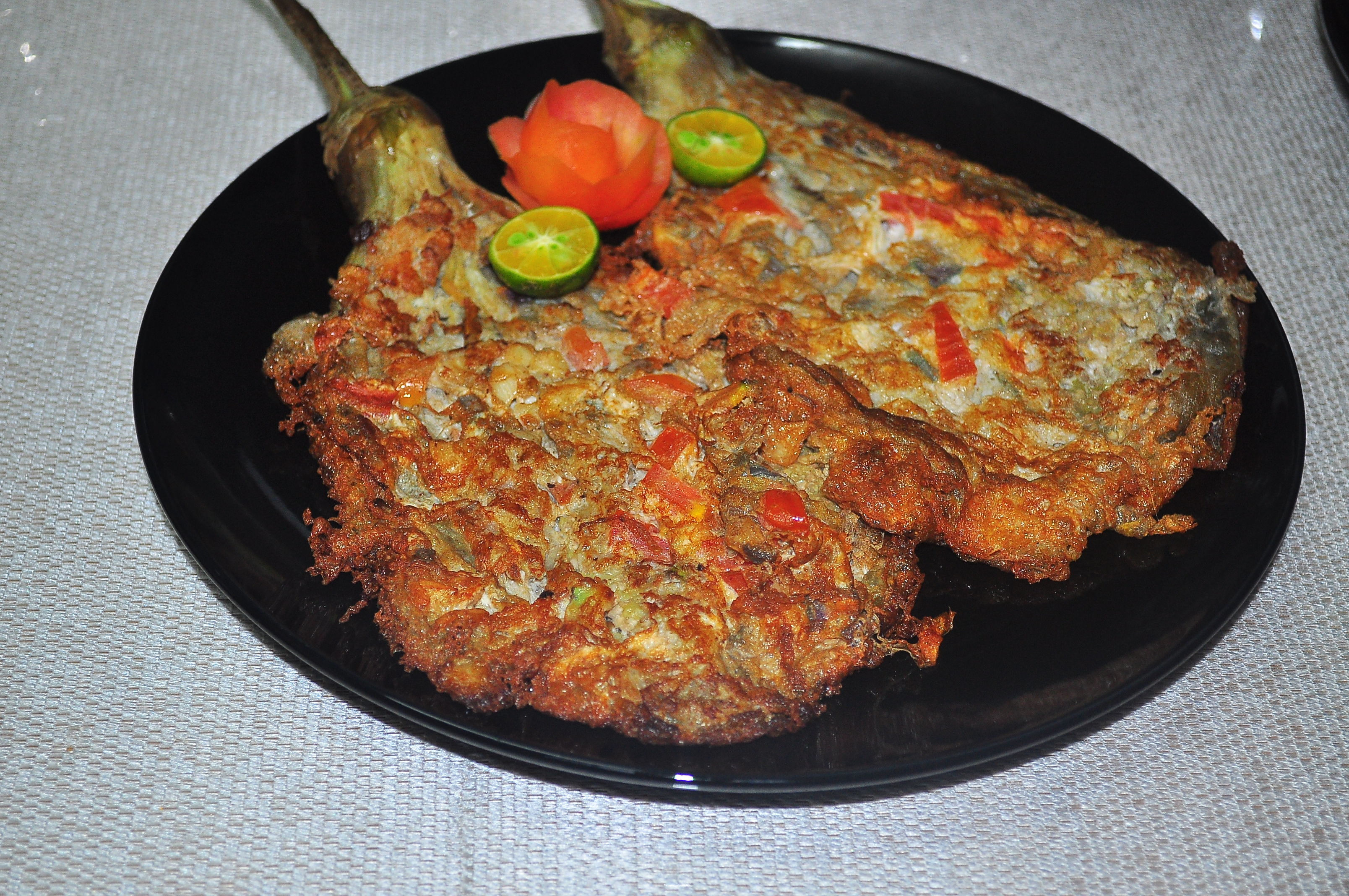 My wife cooked for me my favorite Eggplant Torta, first you have to grill the eggplant. Remove the skin and flatten it, then add the beaten egg with minced bulb onions, garlic and tomatoes.